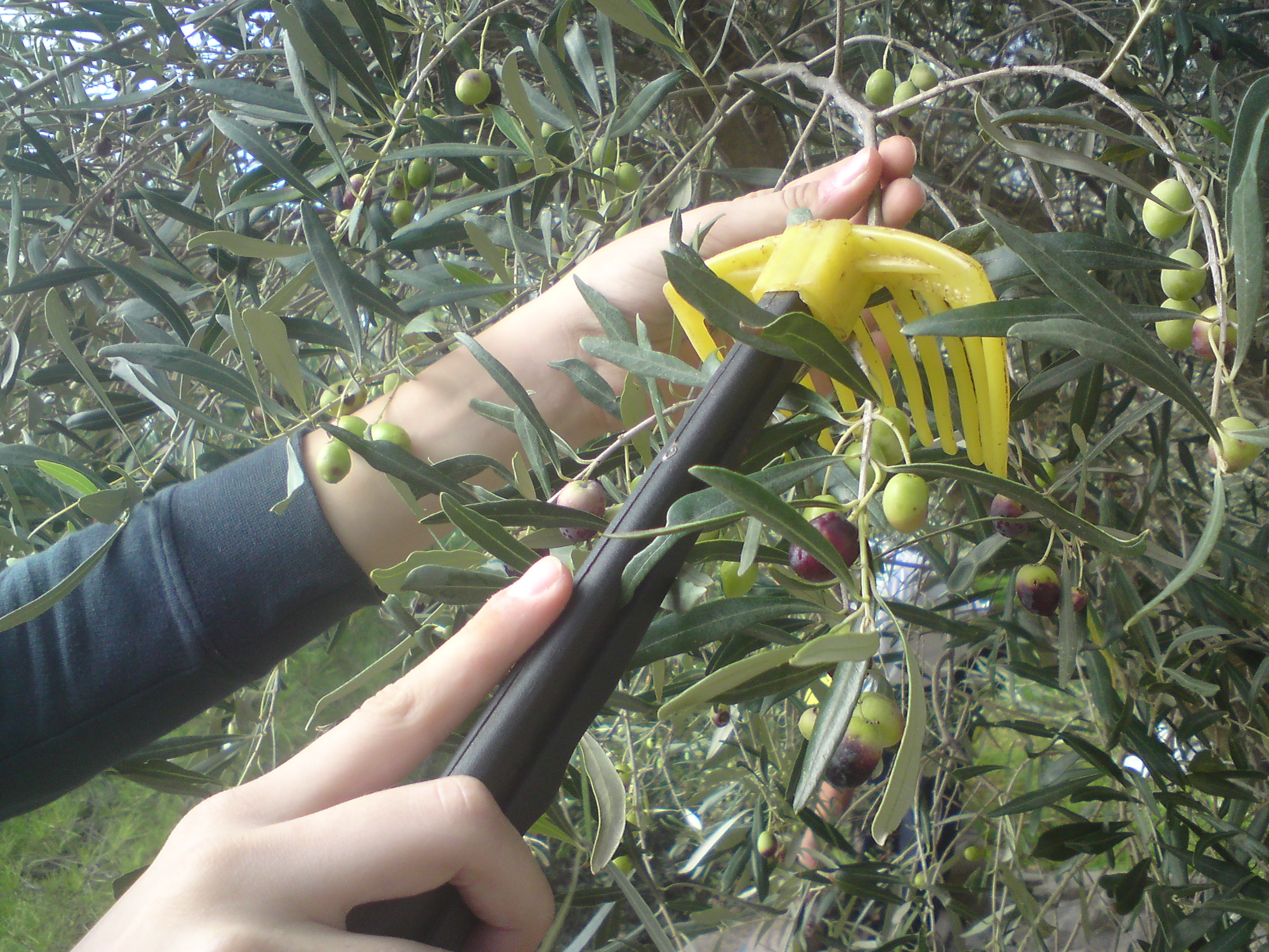 Photo of a comb-shaped, olive-picking tool in use.